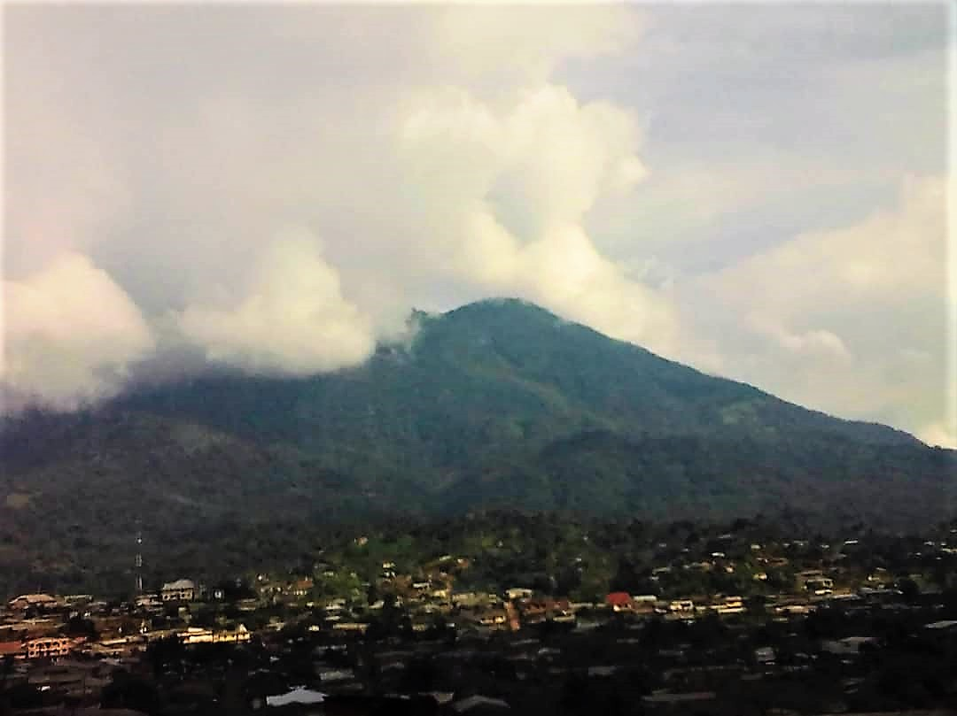 A little further away, from the residential neighborhood of Nkongsamba: The pastoral's neighborhood.